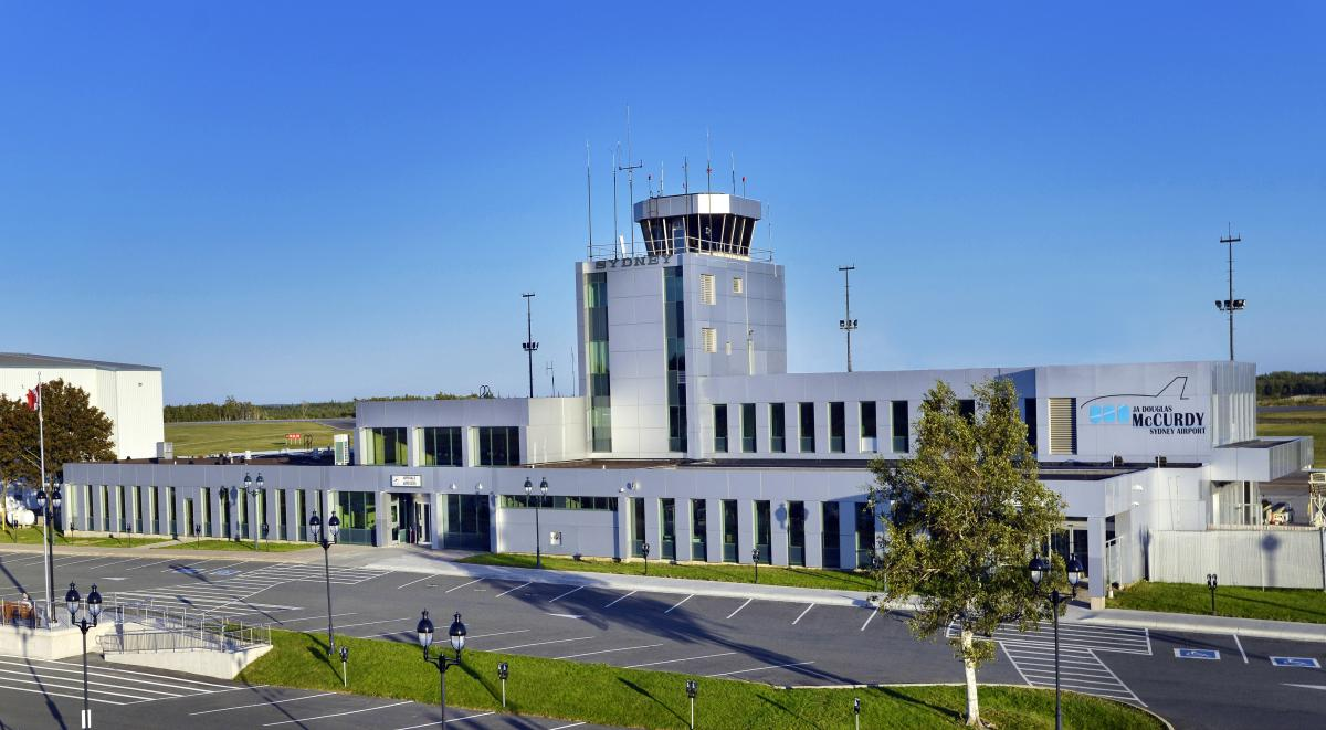 The Sydney/J.A. Douglas McCurdy Airport as seen from ground side.